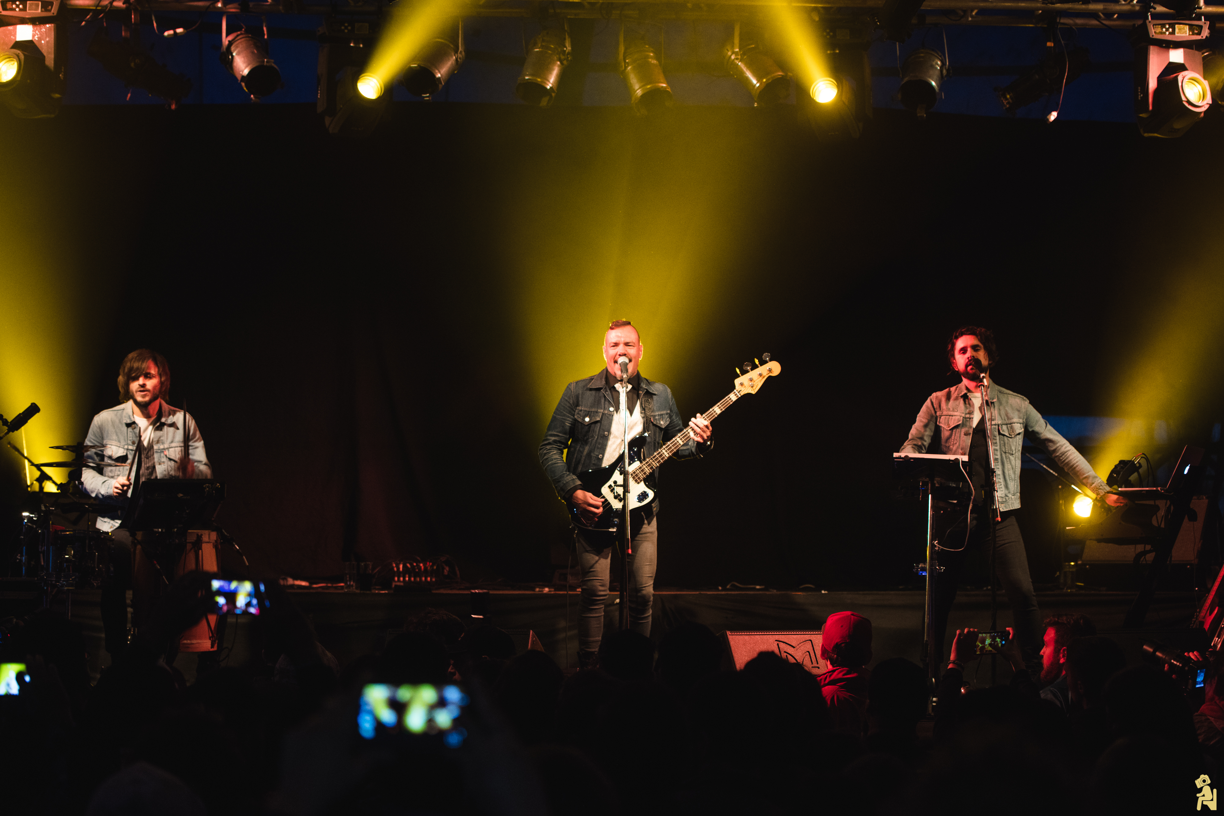 Vanthra en vivo en Cosquin Rock 2018